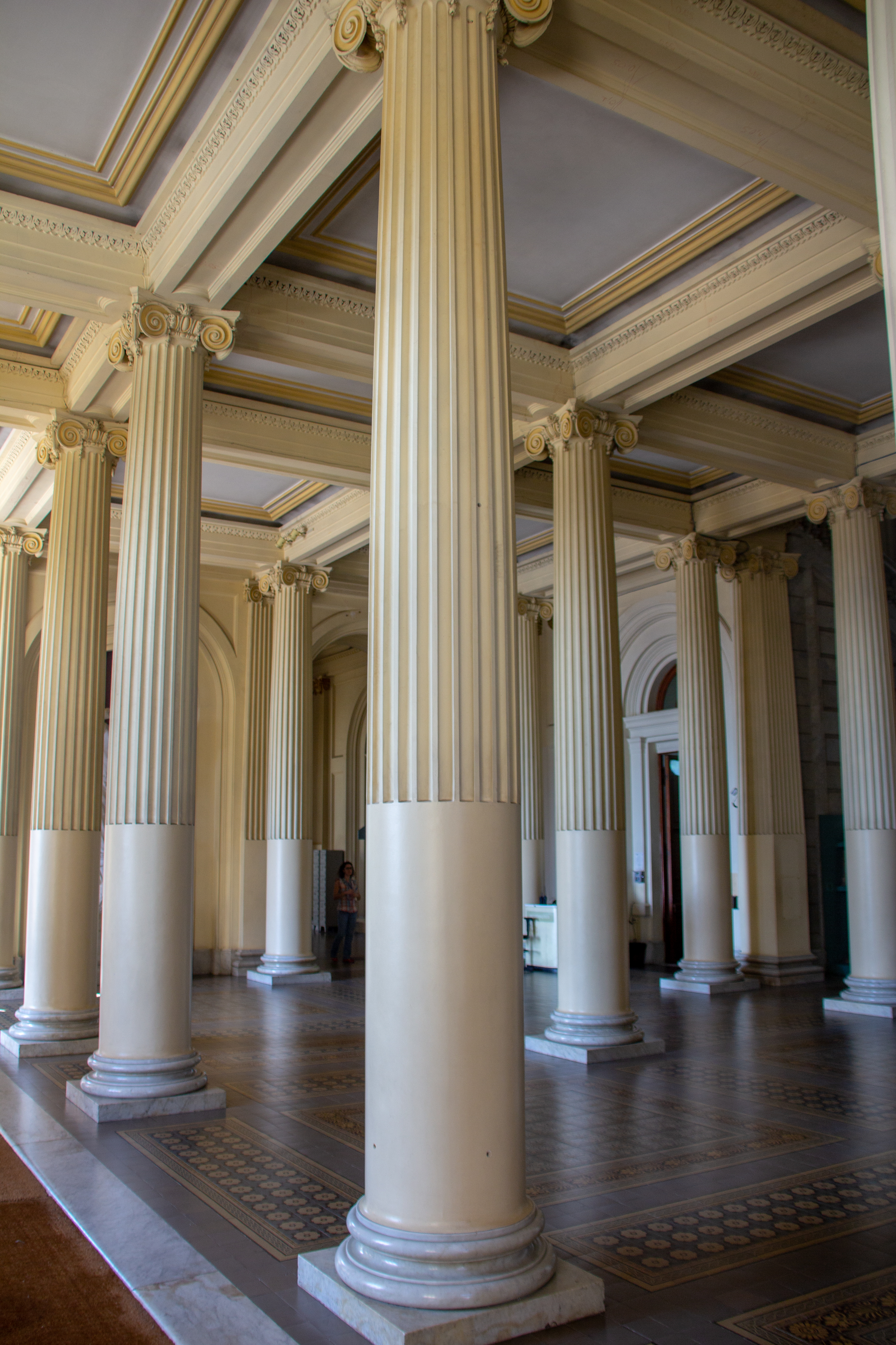 Backstage tour of the Museu do Ipiranga, University of São Paulo, Brazil